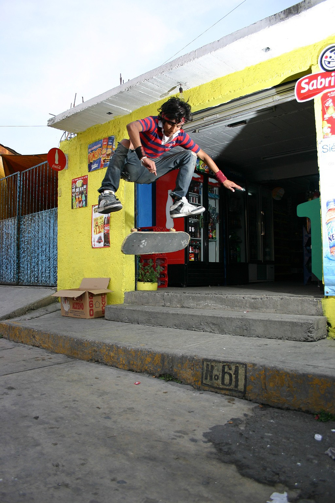 Heelflip